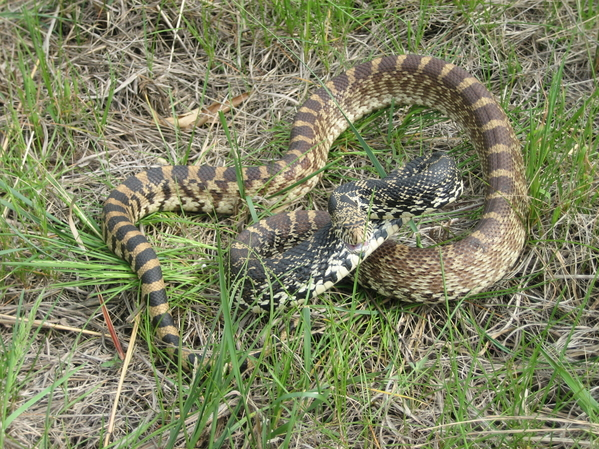 Bullsnake, Pituophis catenifer sayi, from Linn County, Iowa.